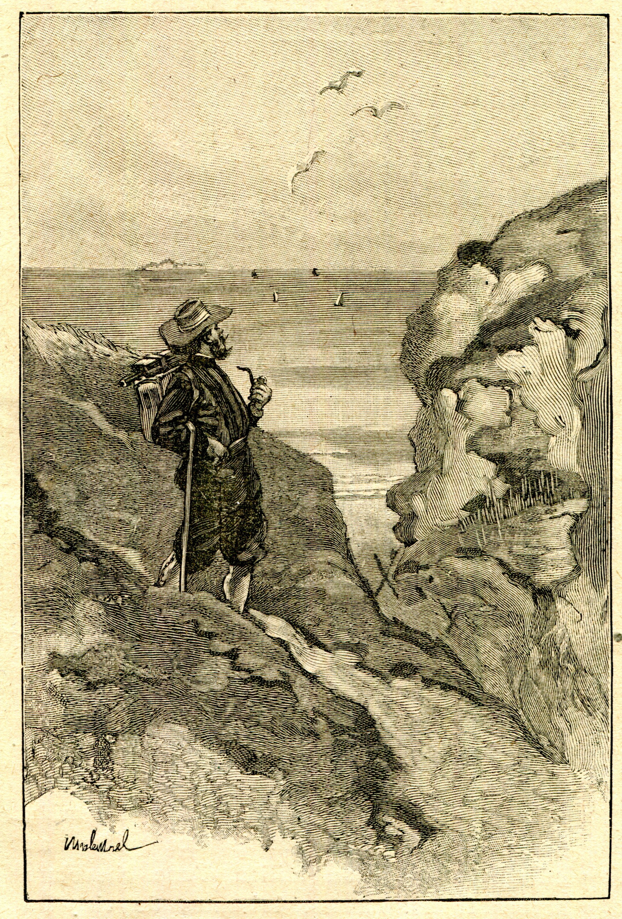 Illustration for the story "Miss Harriet" by G. de Maupassant